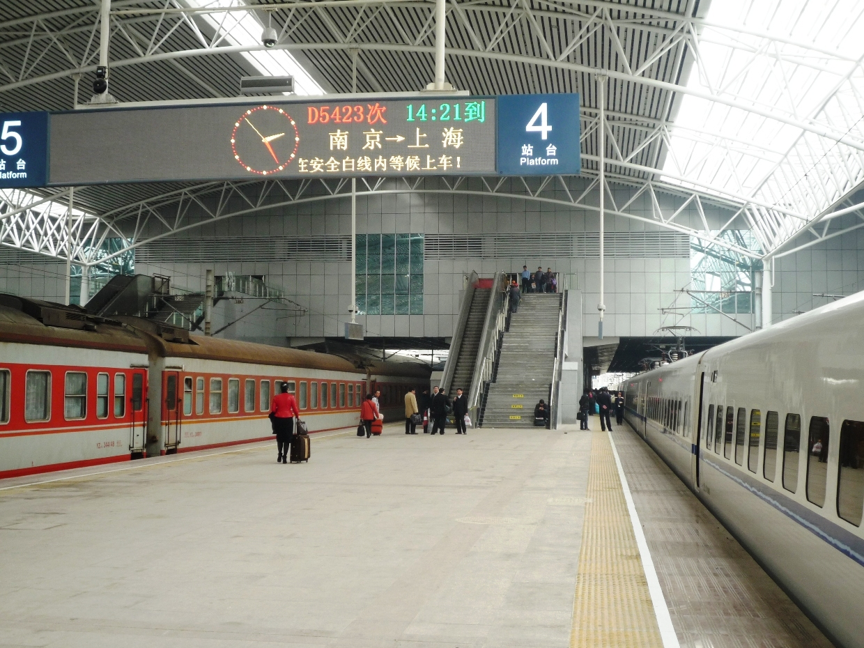 Shanghai Railway Station platform in Zhabei, Shanghai, China. On holding Expo 2010 Shanghai China, Dome-shaped roof has been equipped in the station. The photo taken by Bergmann in 31 March 2010. China Railways CRH2 from Nanjing arrived on 4th platform